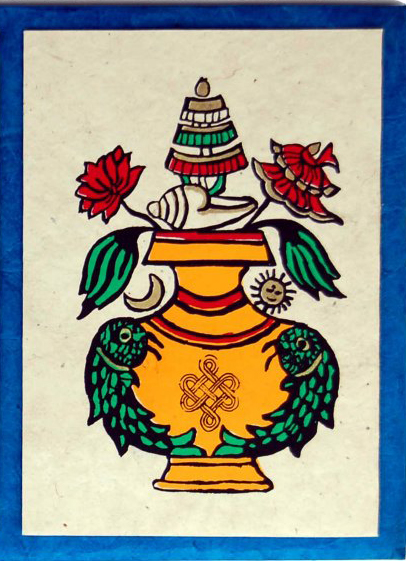 Purna Kalash is the vase designed as such that all the eight auspicious symbols are arranged artfully.